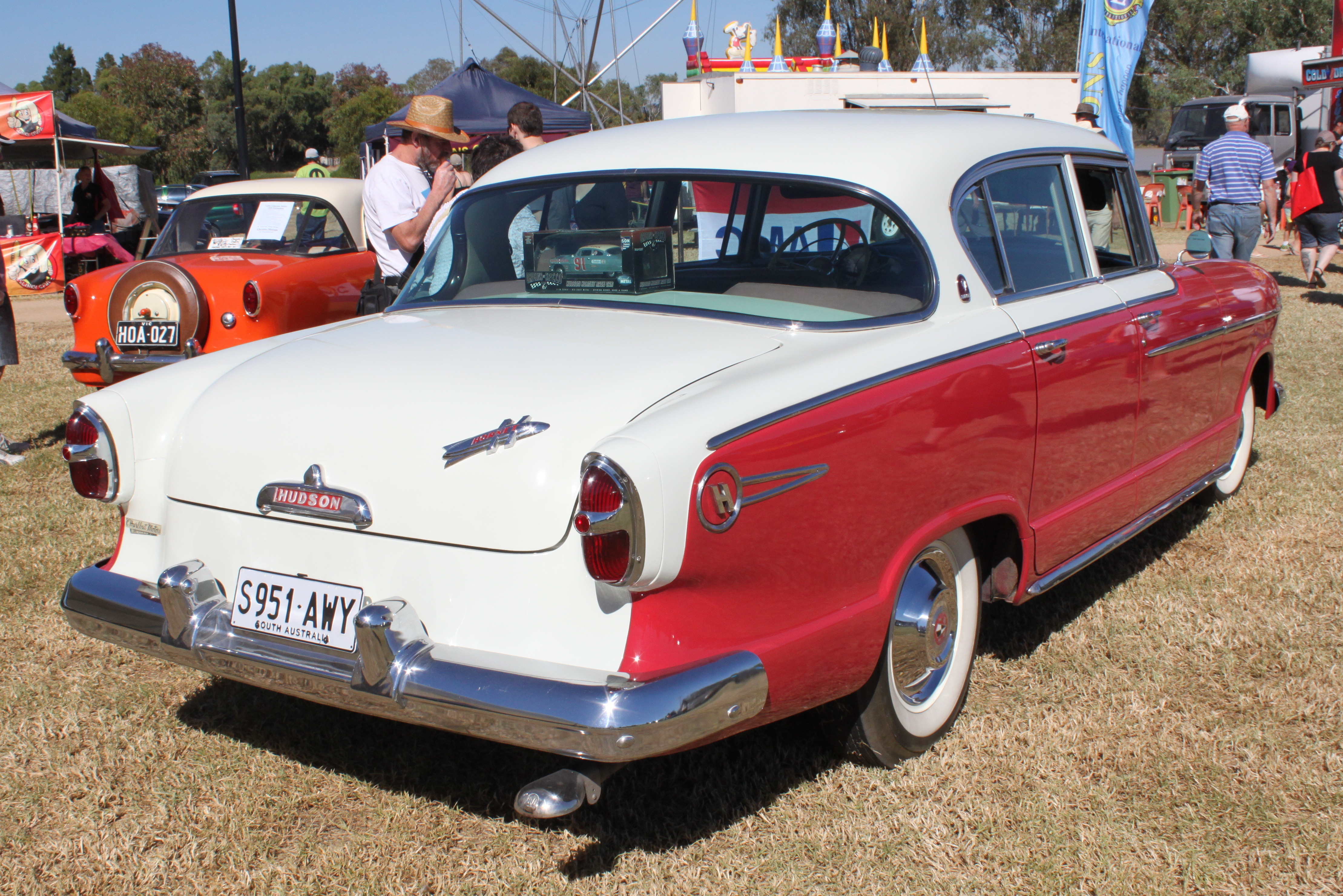 Chryslers on the Murray 2015